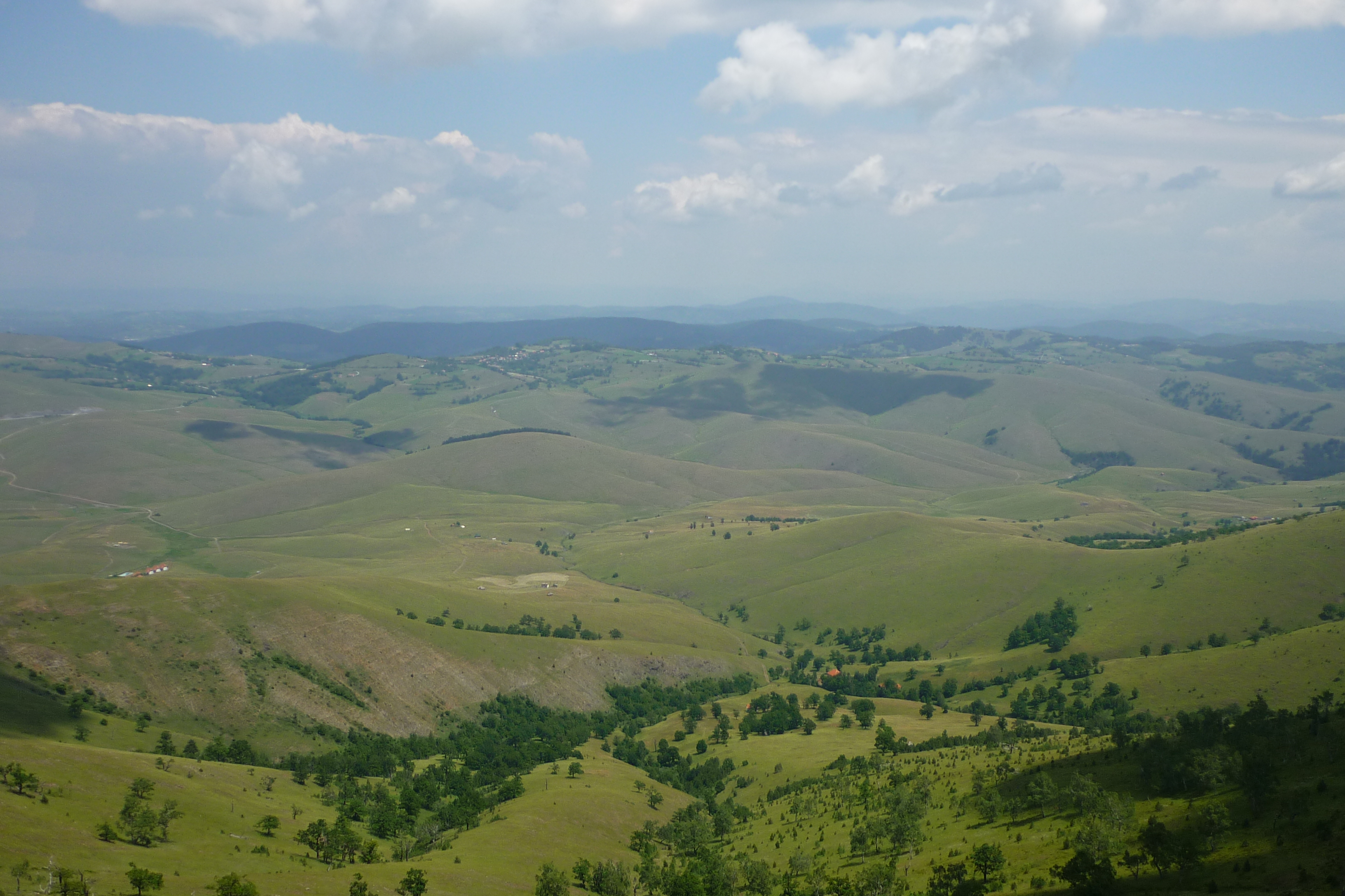 Photo shooted from the Cigota mountain